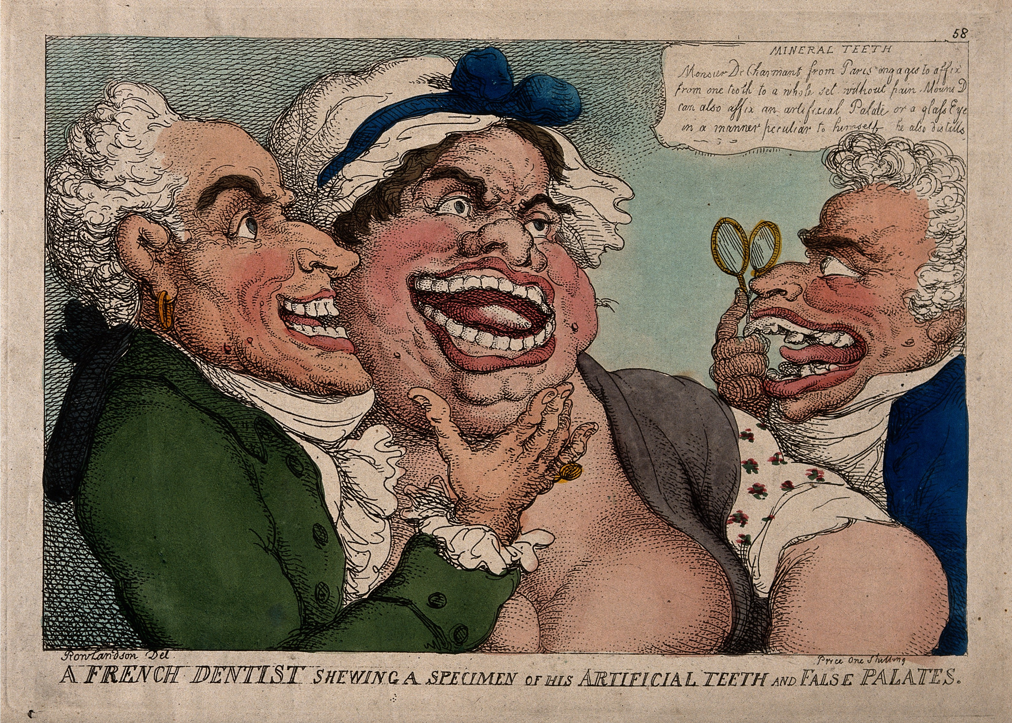 N. Dubois de Chémant demonstrating his own, and a grotesque female patient's false teeth, to a prospective male patient with grossly disfigured teeth. Coloured etching by T. Rowlandson, 1811. Iconographic Collections Keywords: Physiognomy; Dentures; costume - history - 19th centu; dubois de chbemant, nicolas, 1; dentists - france - 19th centu; Eyeglasses; Dental Materials; Thomas Rowlandson; Nicolas Dubois de Chémant; Dentition